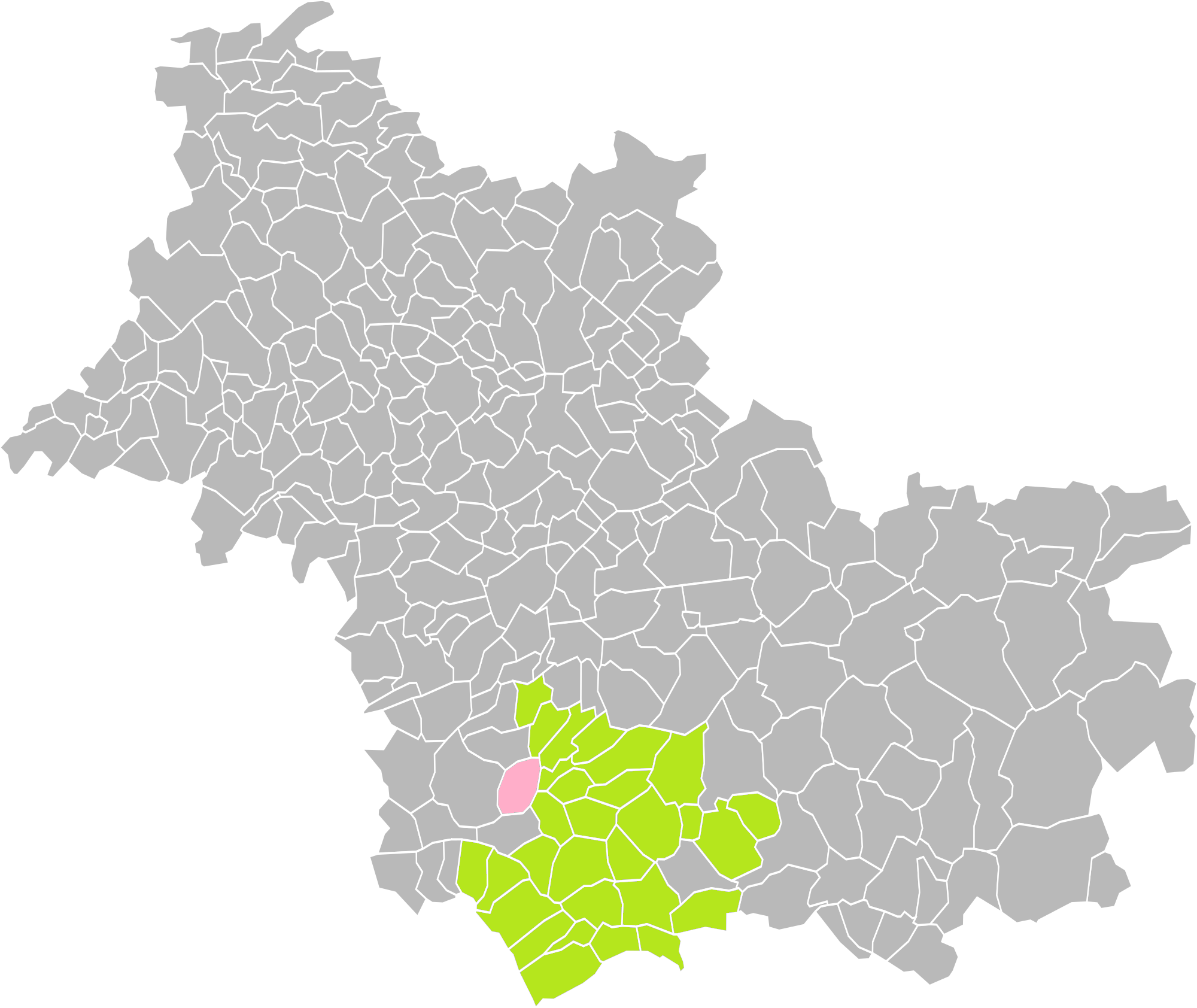 Location of the commune of Thenay in the Communauté de communes Val de Cher - Controis (Loir-et-Cher)